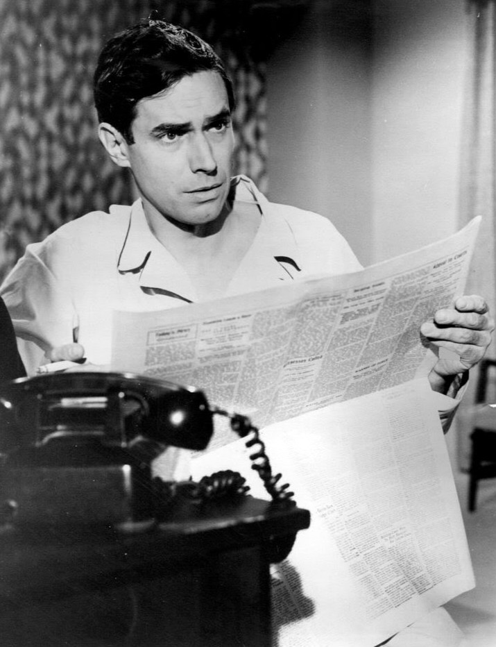 Photo of Bradford Dillman in a guest starring role on the television program The F.B.I..